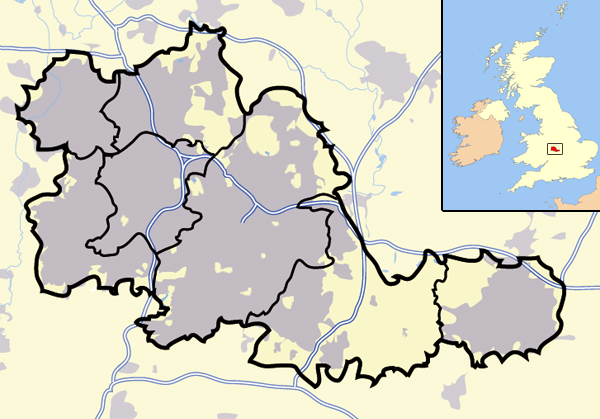 Map of the West Midlands county; urban areas are in grey, county and borough boundaries in black, water in light-blue, motorways in deep-blue with white stripe. Includes mini-map of the United Kingdom, with the West Midland's position for context.